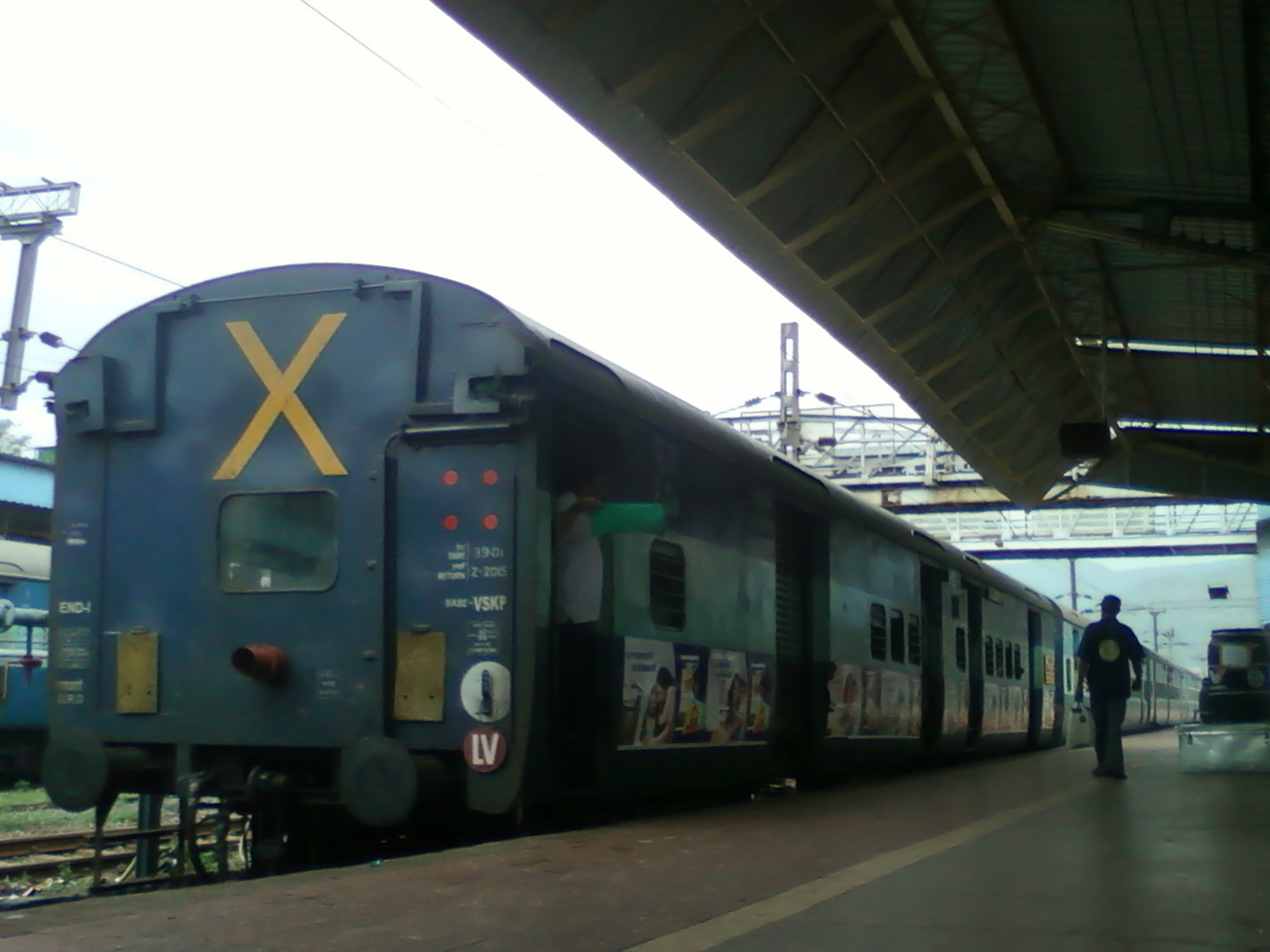 58501 (Visakhapatnam-Kirandul) Passenger at Visakhapatnam Railway station